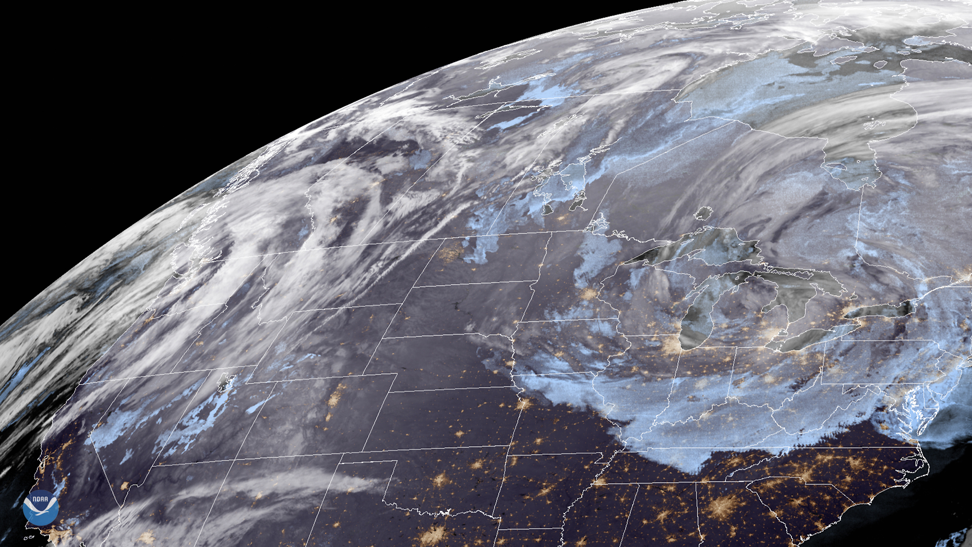 On Dec. 31, 2019, GOES East saw a gradual abatement of a lake enhanced major winter storm system that has affected the Great Lakes region of the U.S. for the past two days. This storm, according to NOAA’s National Weather Service (NWS), “will continue to bring snow, wind, and hazardous travel conditions early this week over the upper Midwest and Great Lakes regions.” Area residents are advised to exercise all due caution while doing routine activities. Weather advisories from Sunday, Dec. 29 stated that the heaviest snow fell in Northern Wisconsin and the Upper Peninsula of Michigan. The Hazardous Weather Outlook for the region elaborates that “accumulations around one to three inches will fall by [Dec. 31] afternoon as an upper-level disturbance moves across the Great Lakes.” However, there is little probability for lasting accumulation for the most heavily populated Southeast Lake Michigan region, with much more settling around Lake Erie instead due to a low-pressure system coming into Ontario, Canada on New Year’s Eve. Fortunately, snow is expected to cease around Lake Michigan by early morning on New Year’s Day. The GOES East geostationary satellite, also known as GOES-16, keeps watch over most of North America, including the continental United States and Mexico, as well as Central and South America, the Caribbean, and the Atlantic Ocean to the west coast of Africa. The satellite's high-resolution imagery provides optimal viewing of severe weather events, including thunderstorms, tropical storms, and hurricanes.